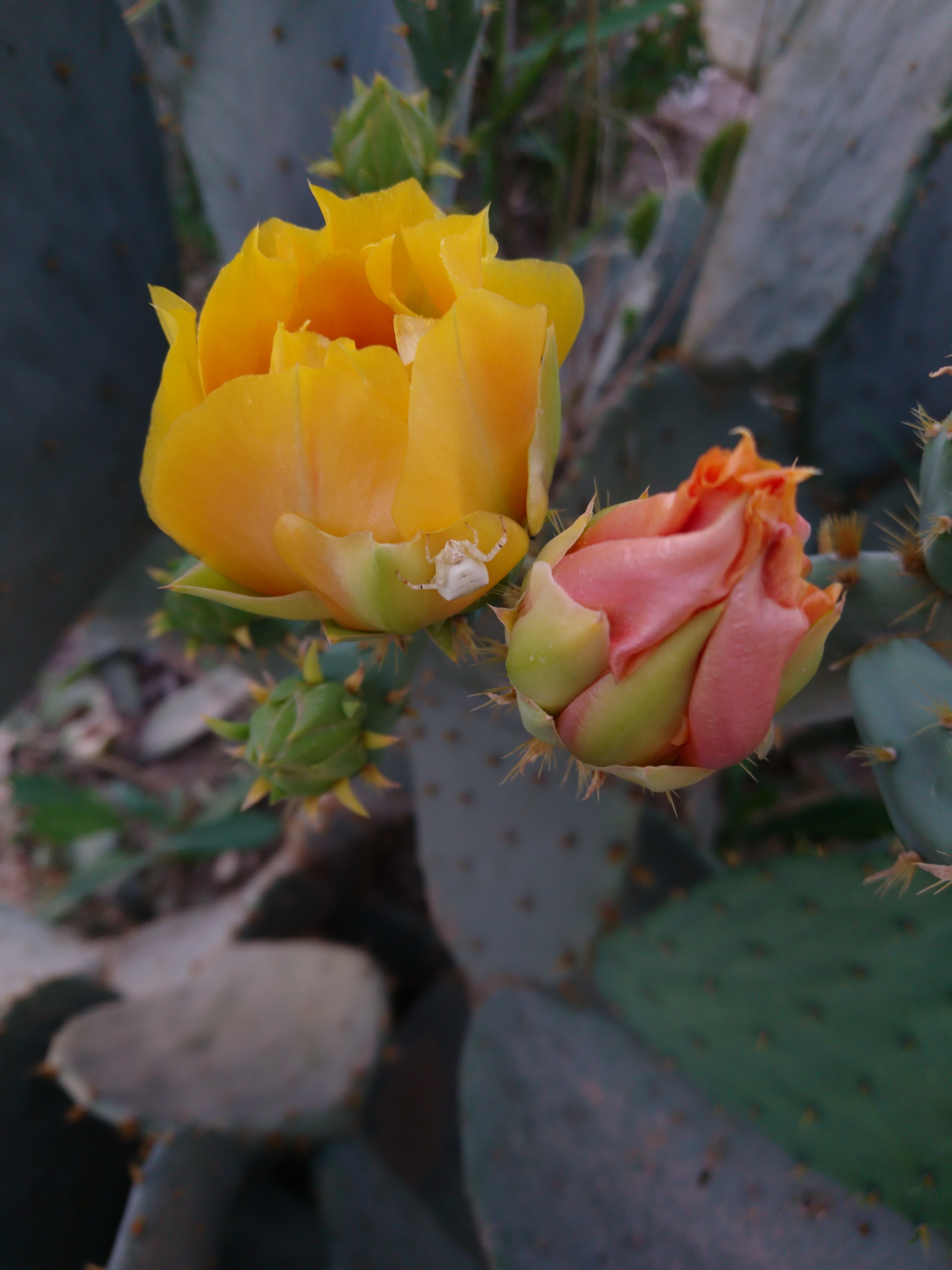 Opuntia Ficus Indica in Behbahan, Iran